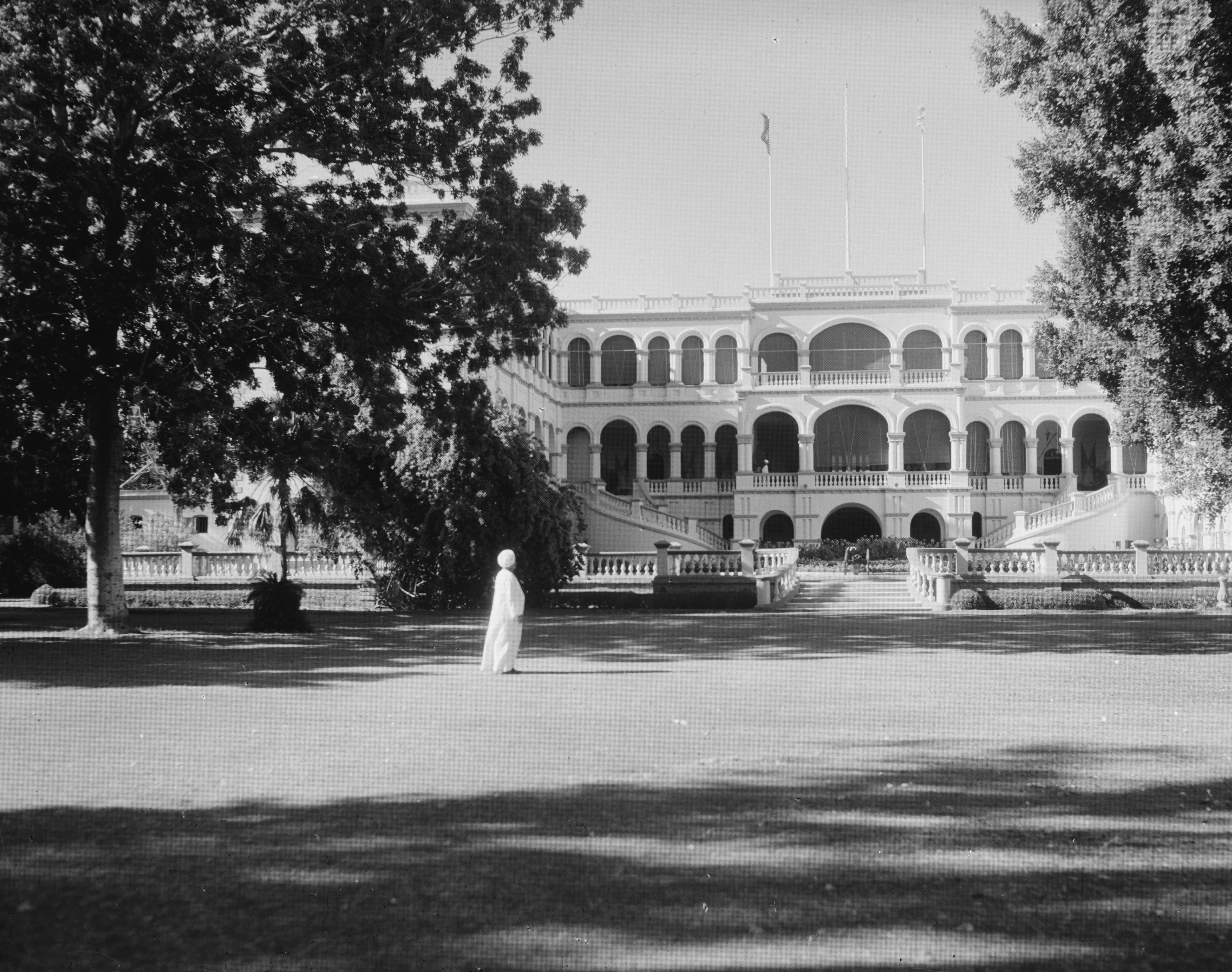 Sudan. Presidential Palace in Khartoum - from across the lawn - c. 1936.